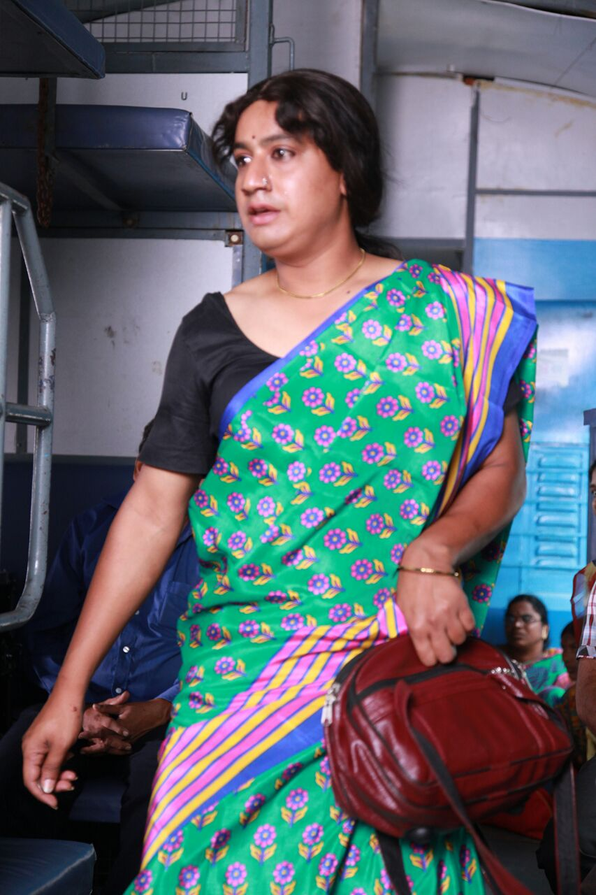 Photo of Kannada cinema and theater actor Sanchari Vijay